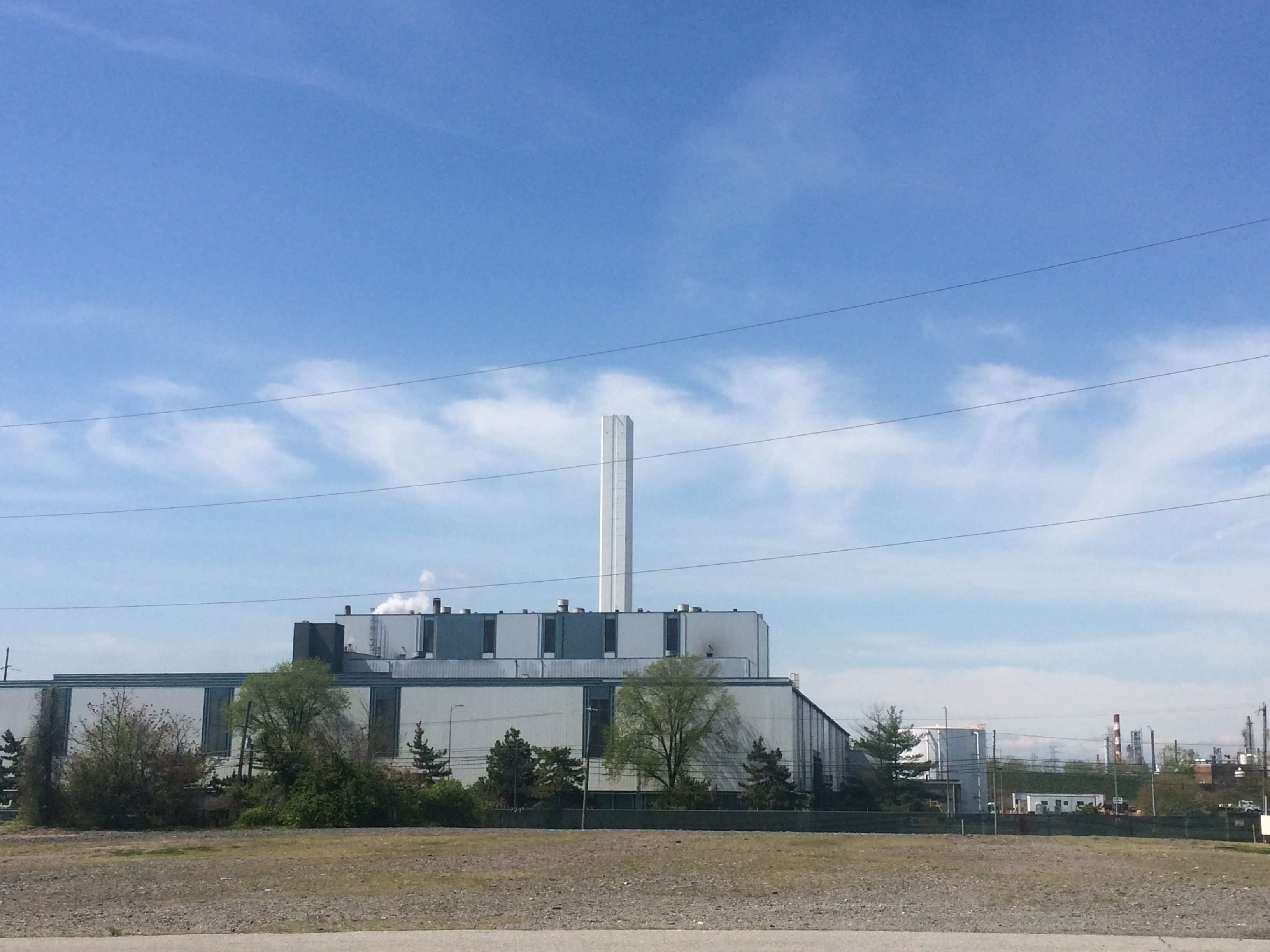 Delaware Valley Resource Recovery Facility in Marcus Hook, PA. Operated by Covanta.